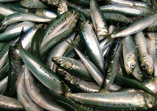 Adult Pacific, Sardinops sagax, sardines caught during NOAA Southwest Fisheries Science Center’s 2006 survey. These sardines were measured and weighed. Scientists also determined their reproductive status determined and collected otoliths (ear bones) for ageing studies.